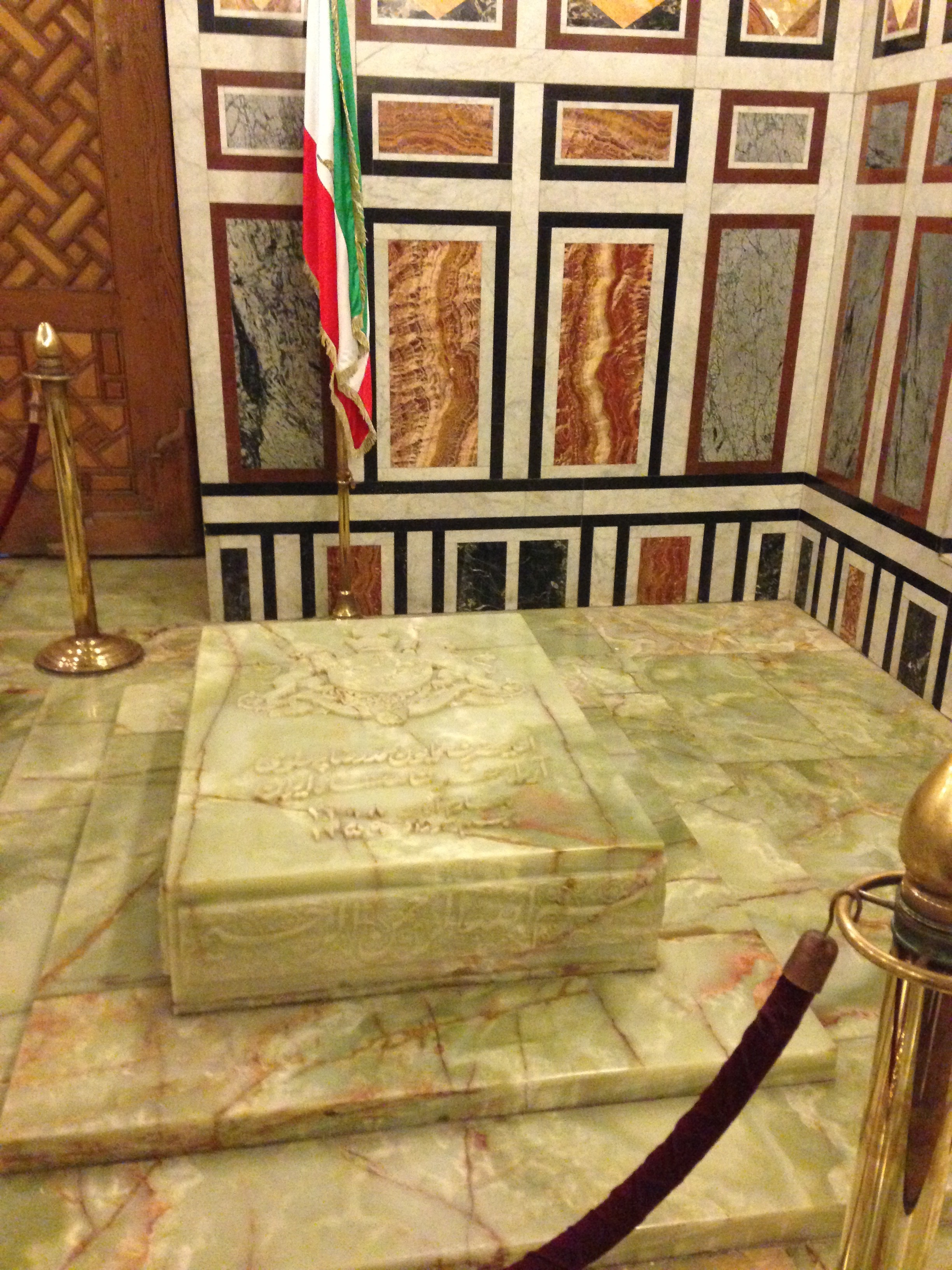 Tomb of Mohammad Reza Pahlavi, the last Shah of Iran, at Al Rifai Mosque in Cairo